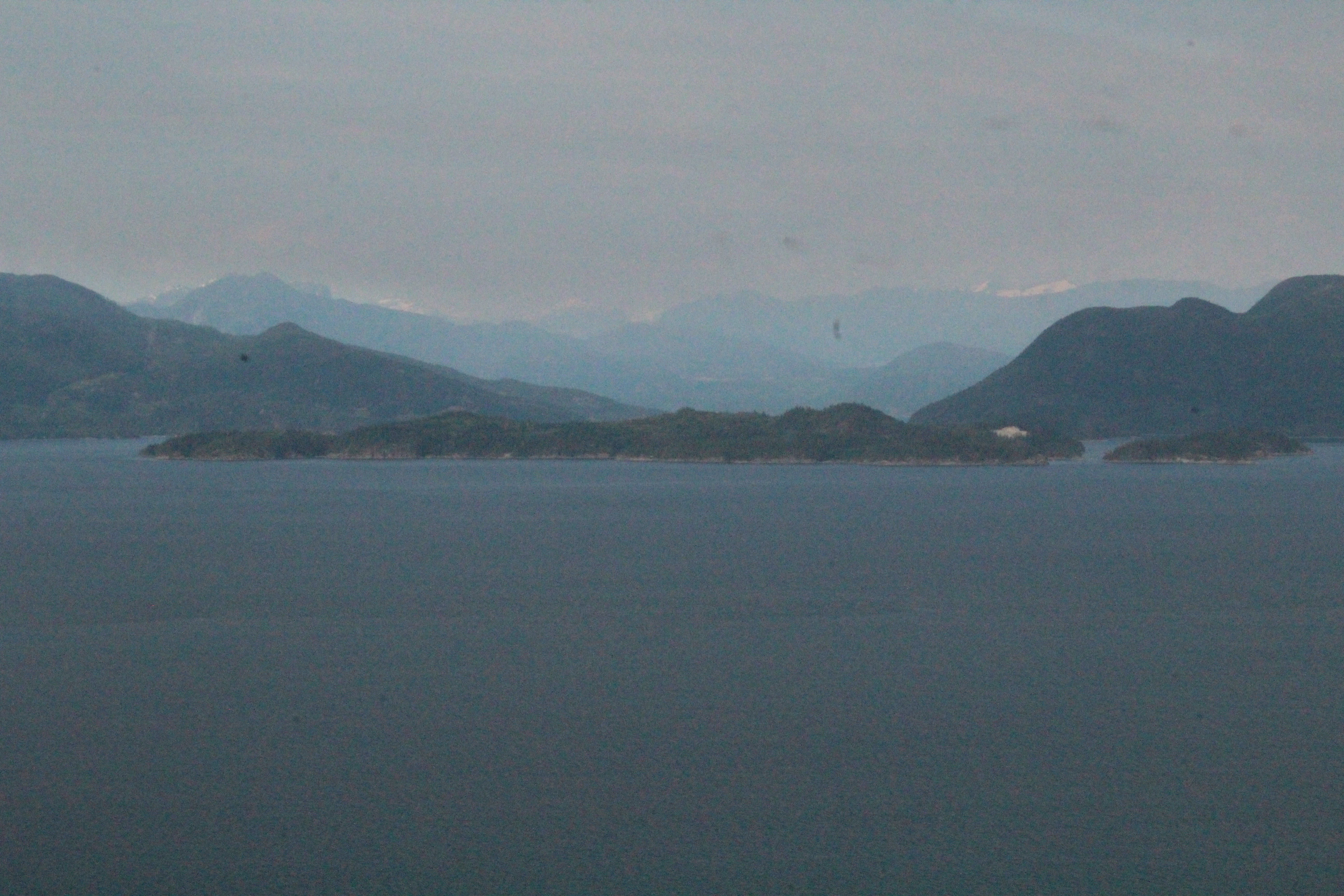 Hardy Island from a floatplane